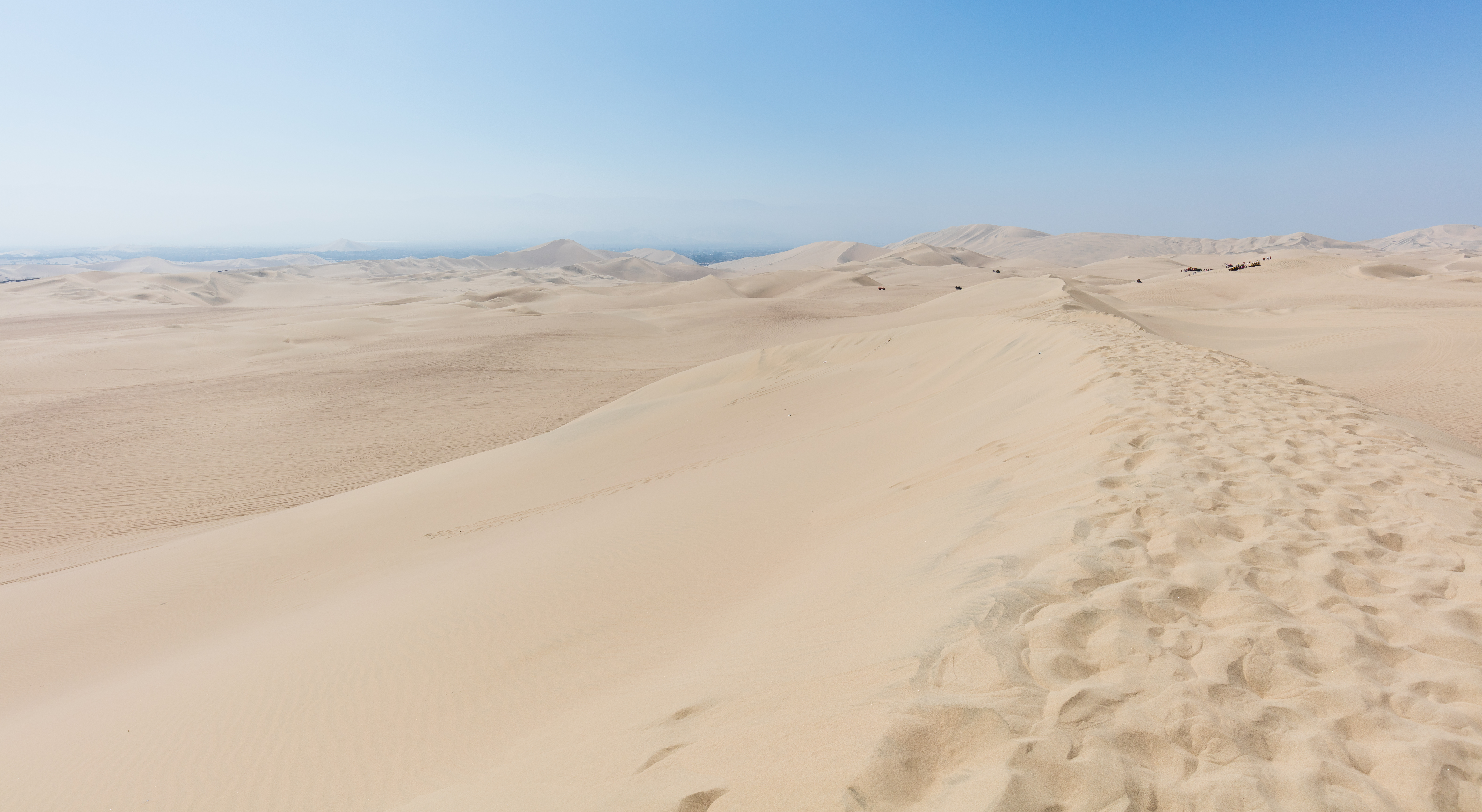 Dunes of Ica, Peru